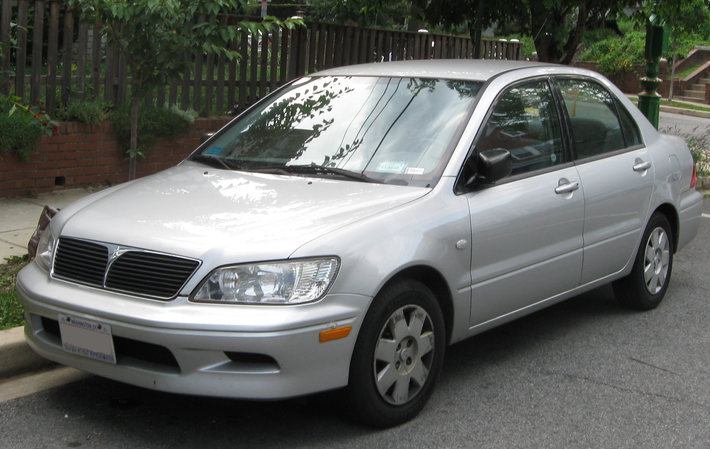 2002-2003 Mitsubishi Lancer photographed in Washington, D.C., USA.